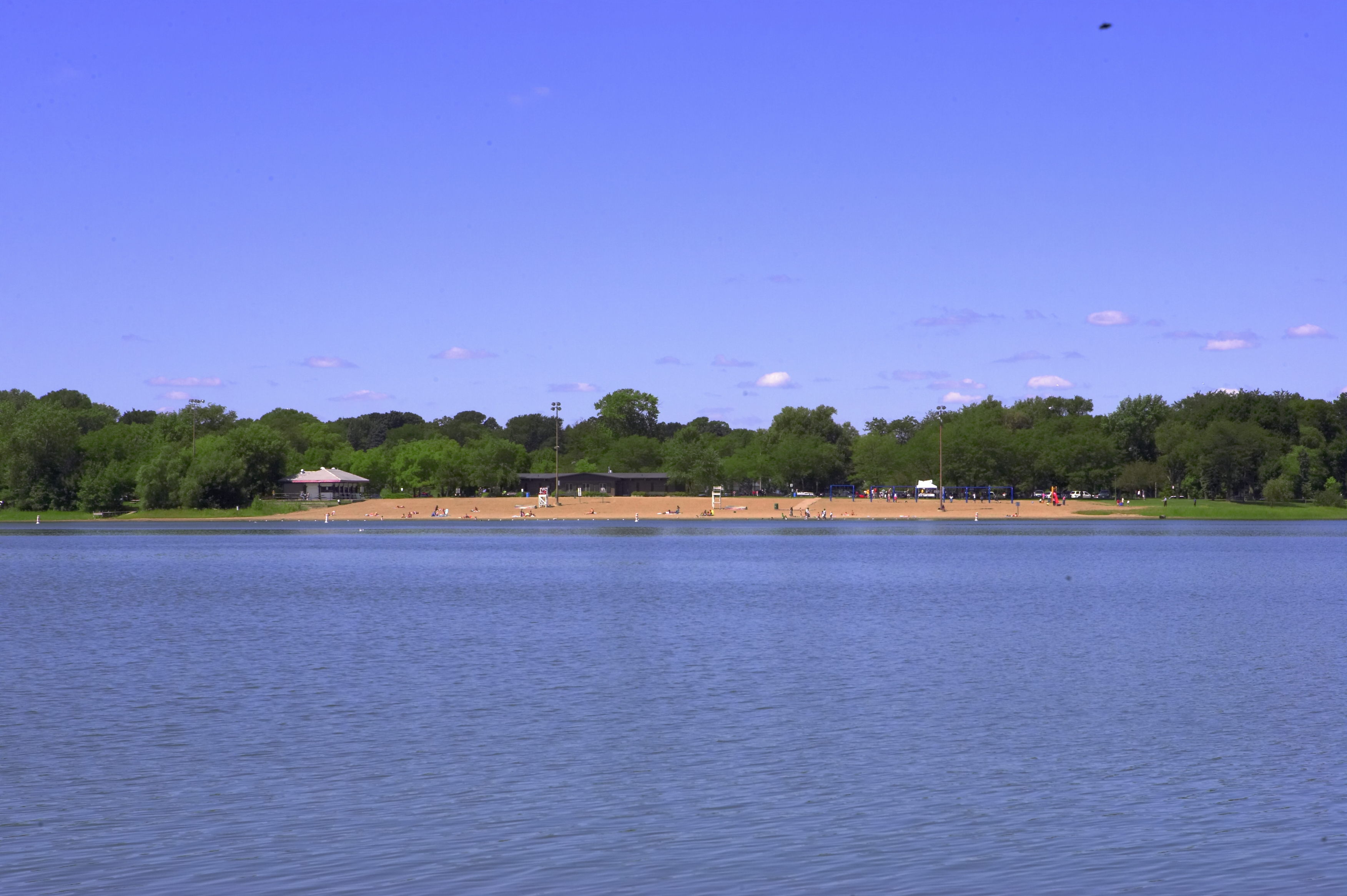 Main Beach on Lake Nokomis, Minneapolis, Minnesota.